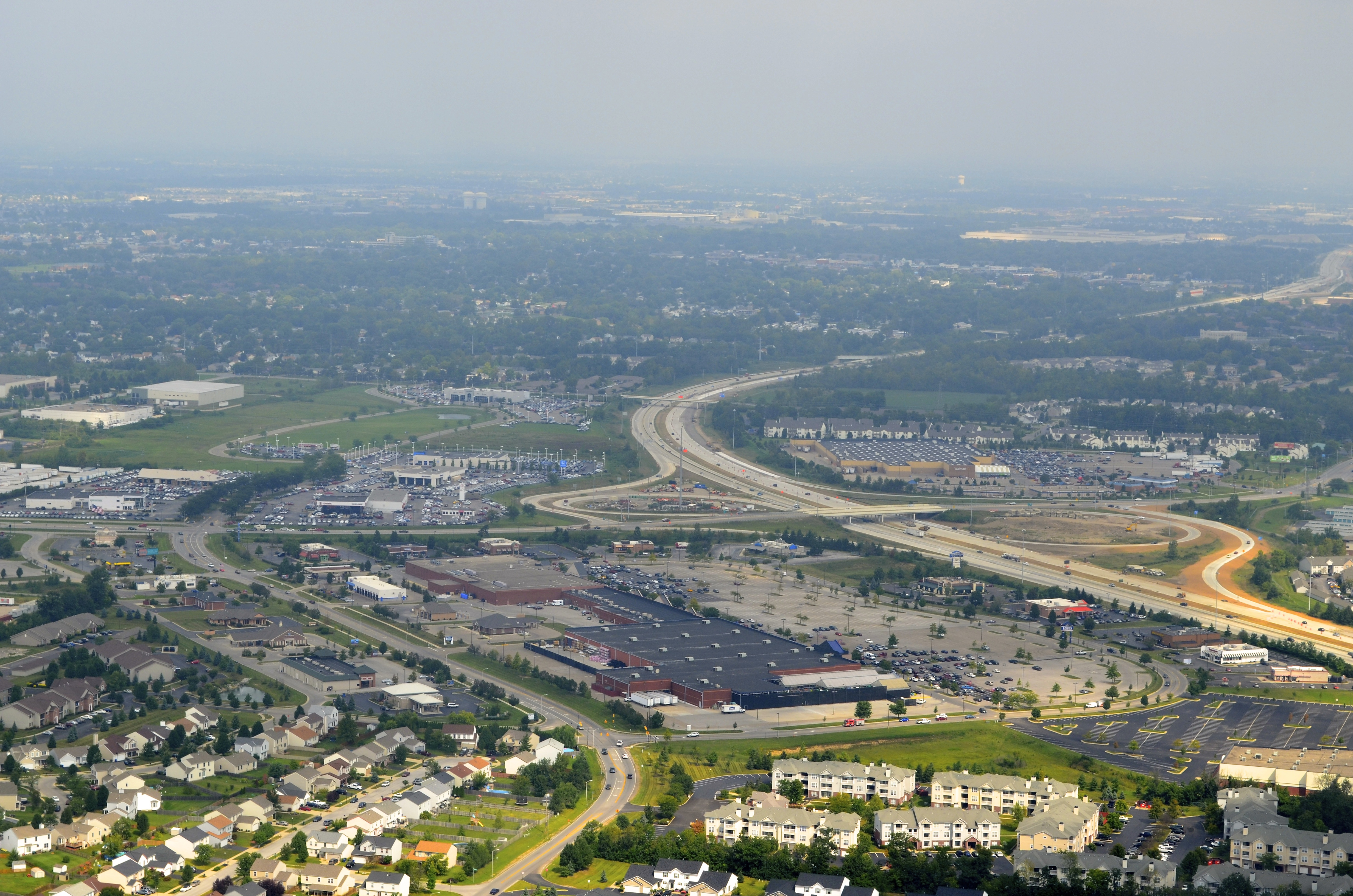 Southwest of I-270, Columbus, Ohio; Exit 5: Georgesville Road